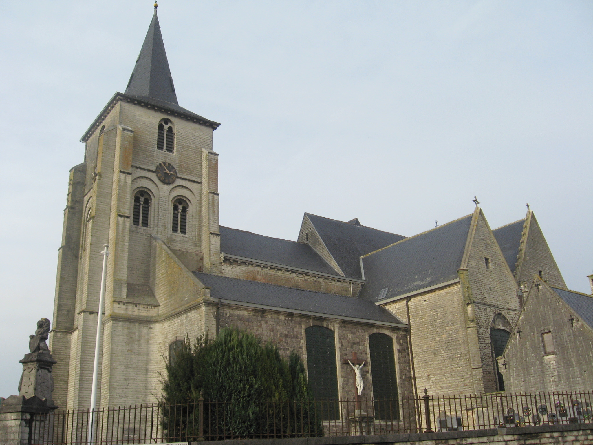 Church of the Holy Saviour in Hakendover, Tienen, Flemish Brabant, Belgium